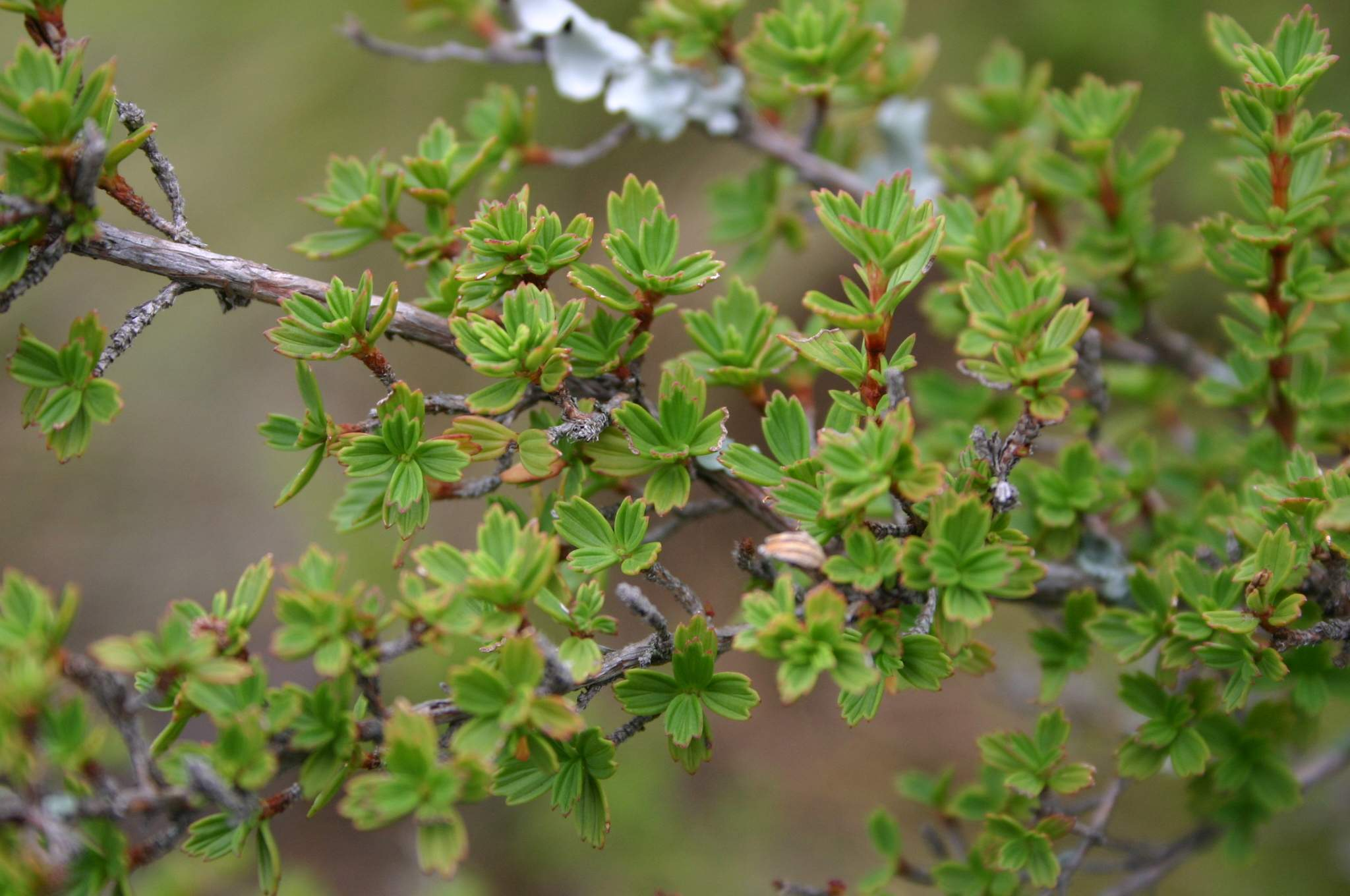 Myrothamnus flabellifolius foliage during wet season, Hamerkop Kloof, Magaliesberg, South Africa